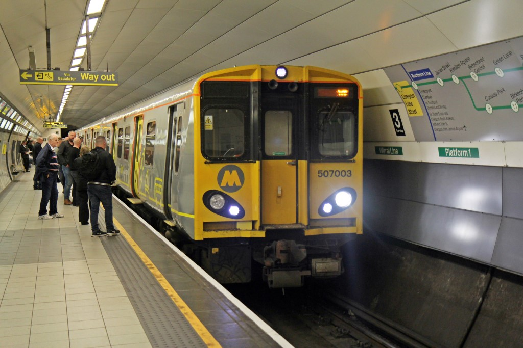 Merseyrail Class 507, 507003, Liverpool Lime Street underground station